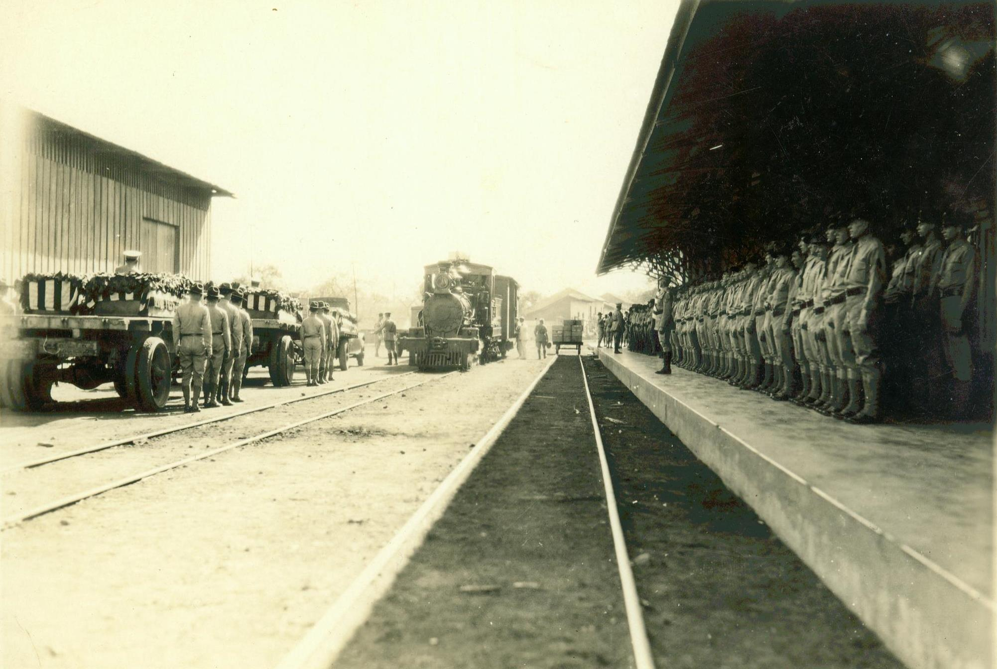 Funeral cortege that transported the bodies of eight Marines killed in action near Ocotal, Nicaragua to the railroad station in Managua, Nicaragua. From the Joseph A. McCarty Collection (COLL/616) at the Marine Corps Archives and Special Collections OFFICIAL USMC PHOTOGRAPH